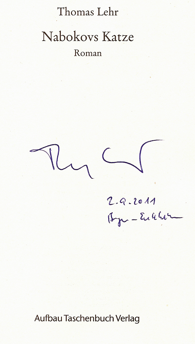 Autograph from Thomas Lehr, German writer, 2011 in Frankfurt am Main, Germany.